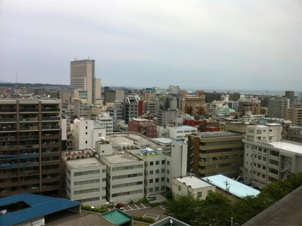 Down Town of Tsu City from Mie Prefectural Government Office.